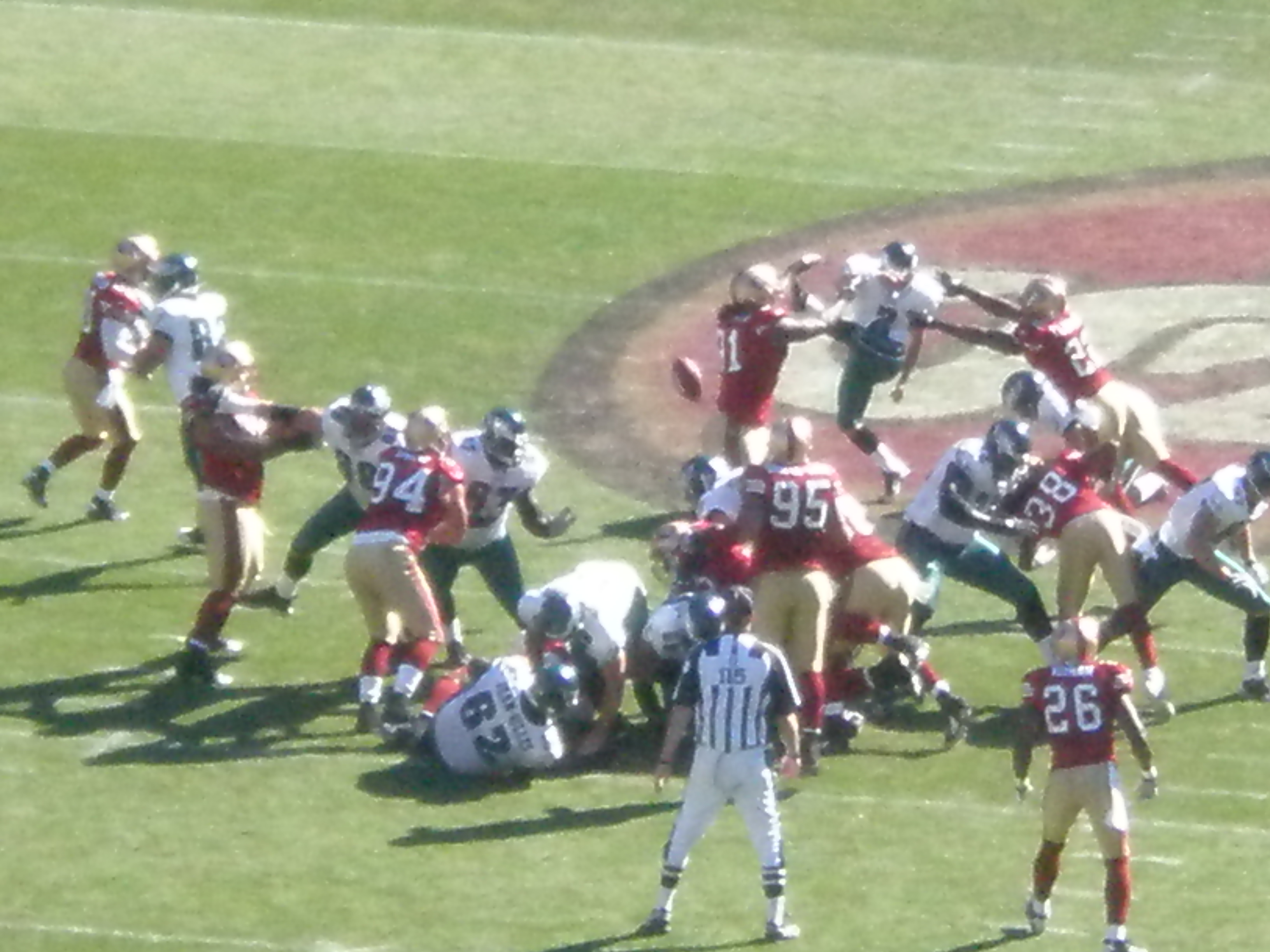 A field goal attempt by Philadelphia Eagles kicker David Akers (#2) is blocked in a regular season game at the San Francisco 49ers. The 49ers returned the blocked kick for a touchdown in the Eagles' 40-26 victory.